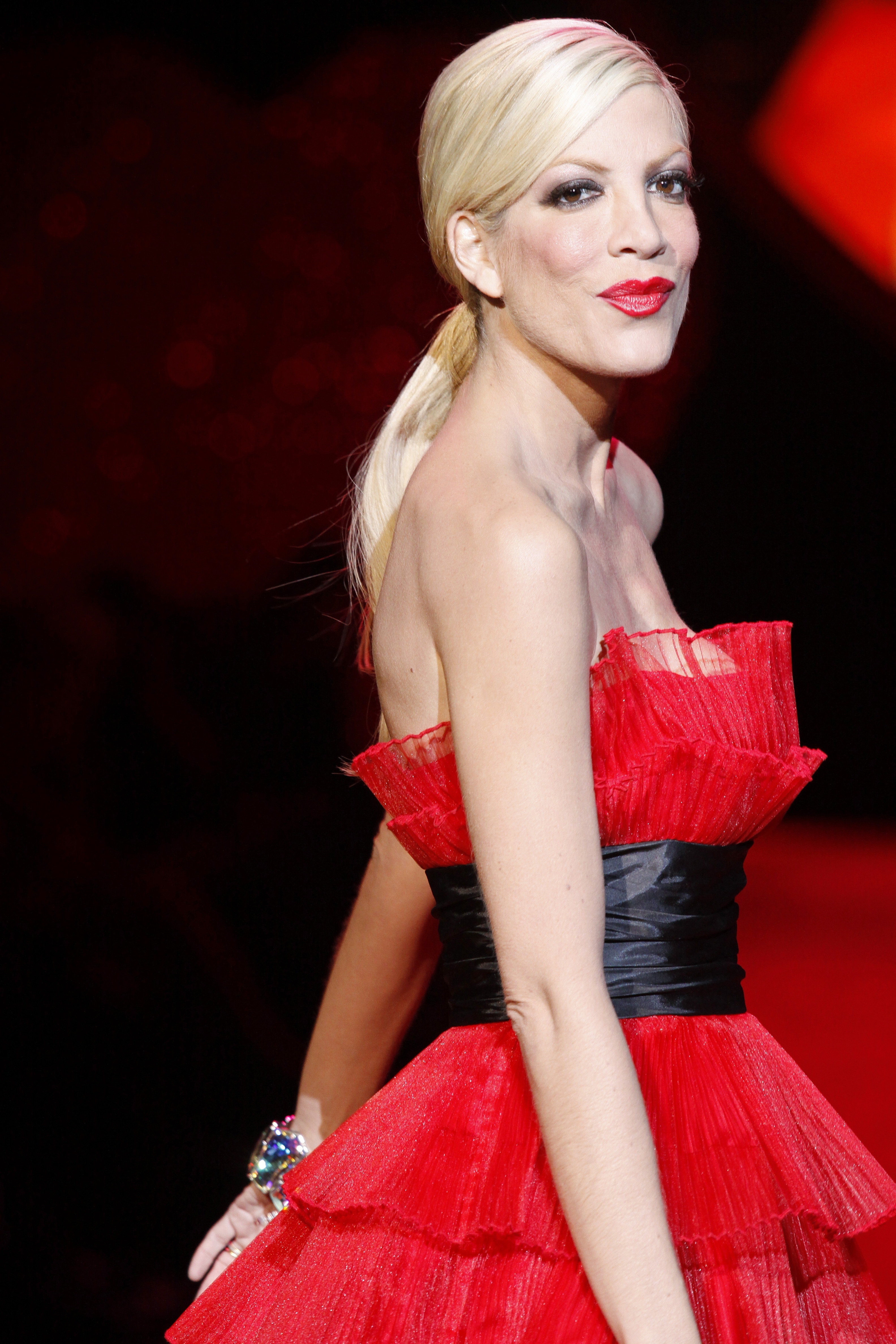 Backstage at The Heart Truth's Red Dress Collection Fashion Show during New York Fashion Week. February 13, 2009 at Bryant Park.